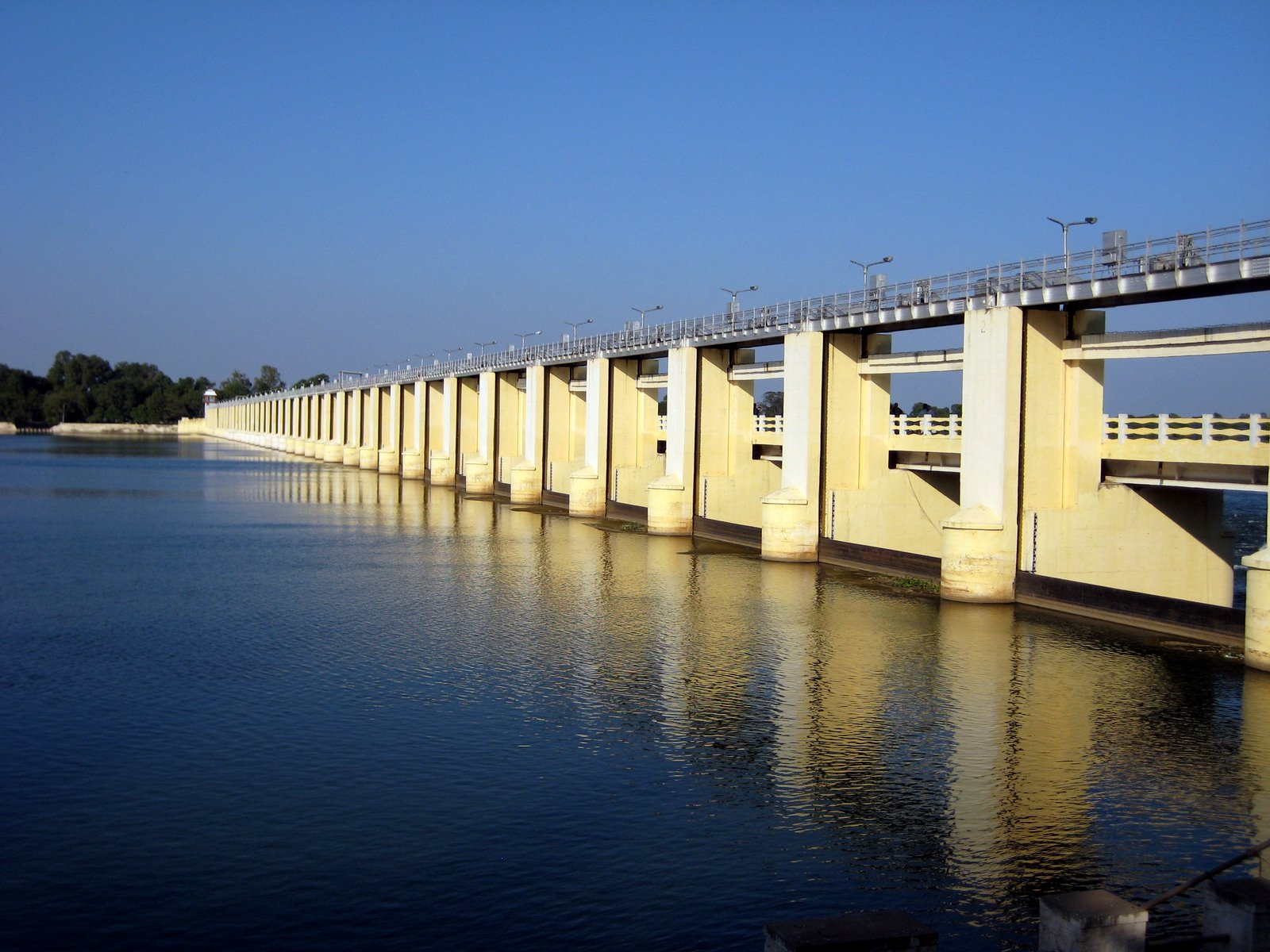 mukkombu